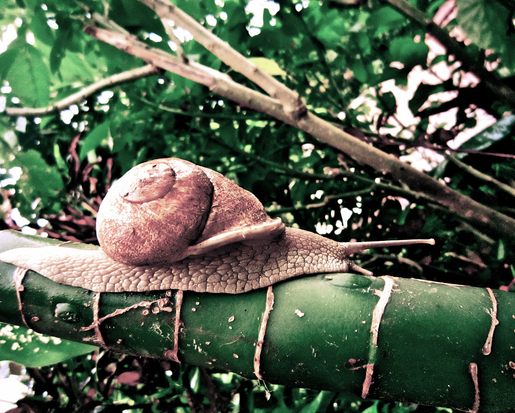 an unidentified gastropod from Jamaica